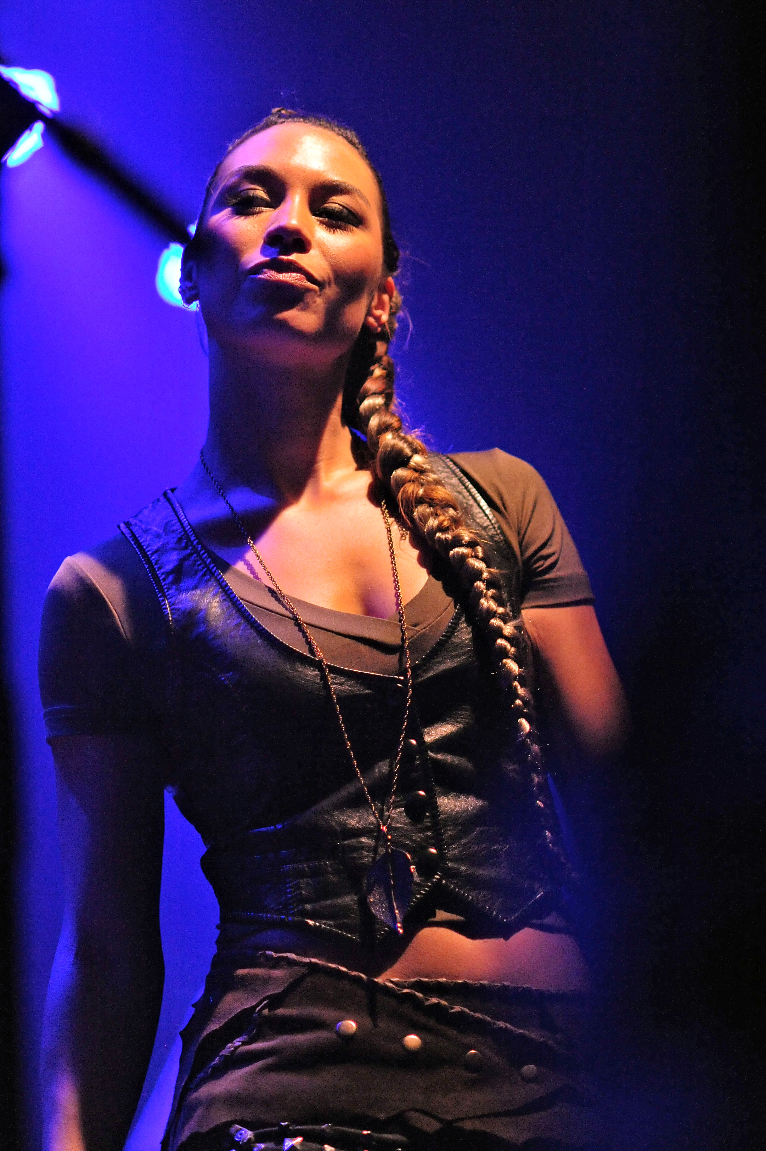 Anniversary festival: 30 Years Rieckhof Hamburg-Harburg. I was invited to take photographs by the managing director of the Rieckhof, Jörn Hansen